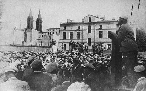 Chairman of the Council of Jewish Elders in Litzmannstadt Ghetto - Chaim Rumkowski is delivering his speech at the so called "fire brigade square" at Lustige Gasse 14 (actually courtyard between buildings 12 and 14 at Zachodnia street in Łódź). Old fire brigade station building and two towers of the church of Assumption of Mary in Łódź are visible in background. Rumkowski- archive picture